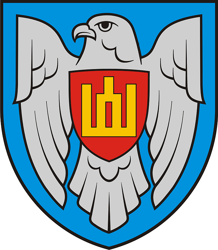 Insignia of the Lithuanian Air Force